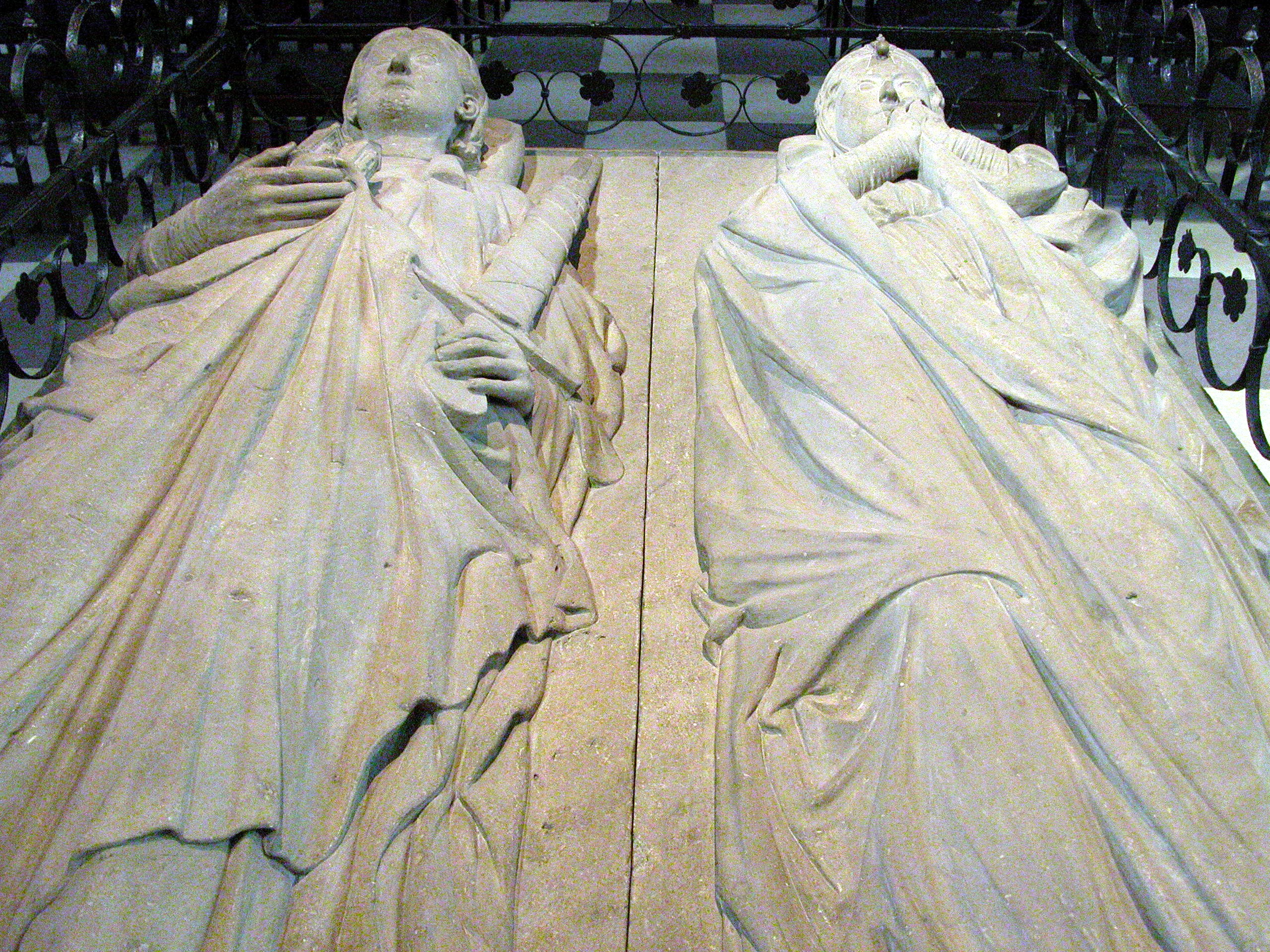 Tomb of Henry the Lion and Mathilda